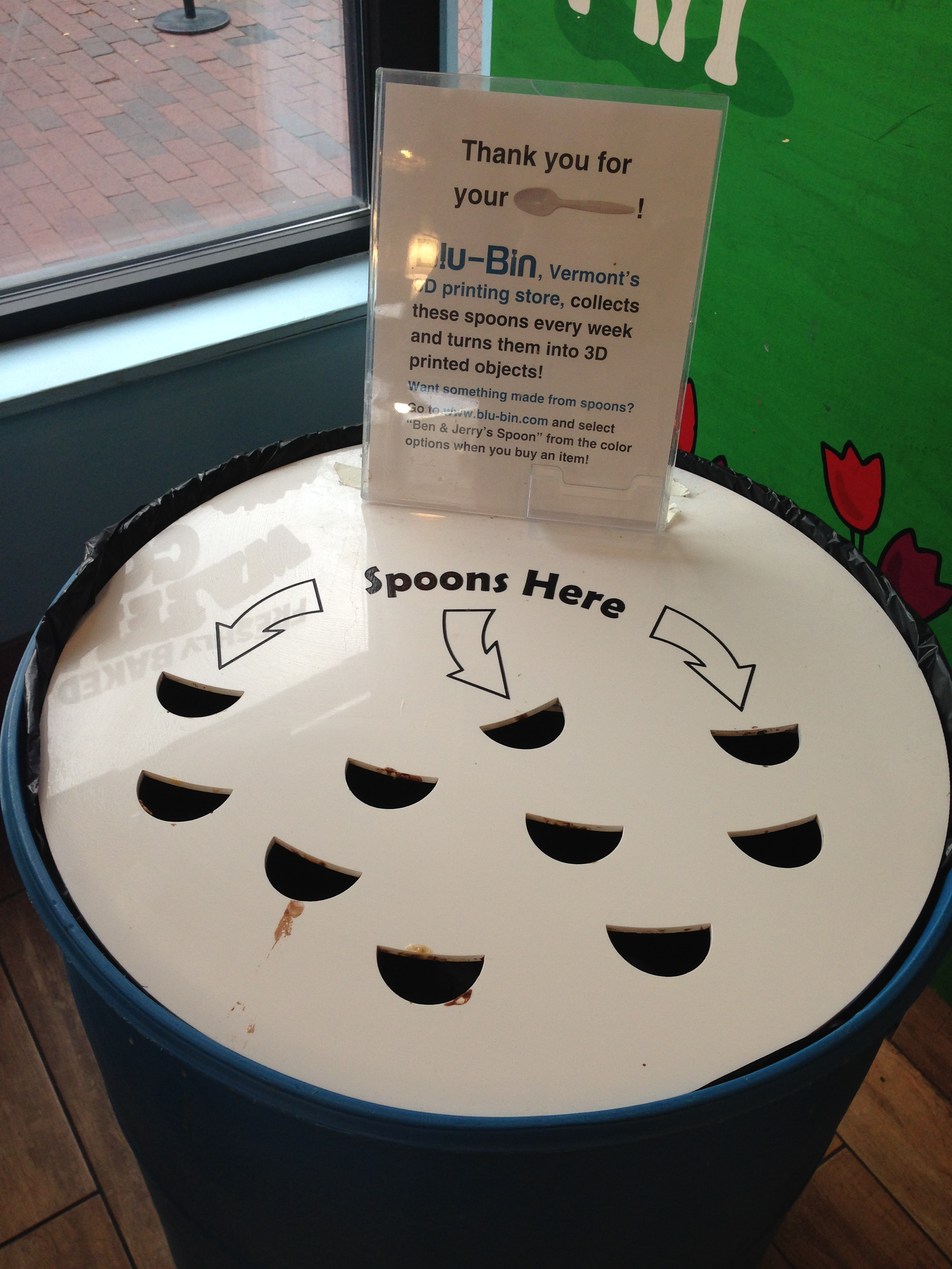 spoon recycling 3d printing